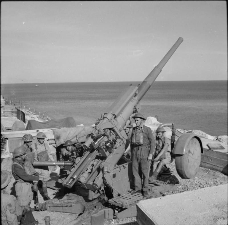 The British Army on Gibraltar 1941 White Rock Battery showing a 3.7-inch mobile anti-aircraft gun, November 1941.